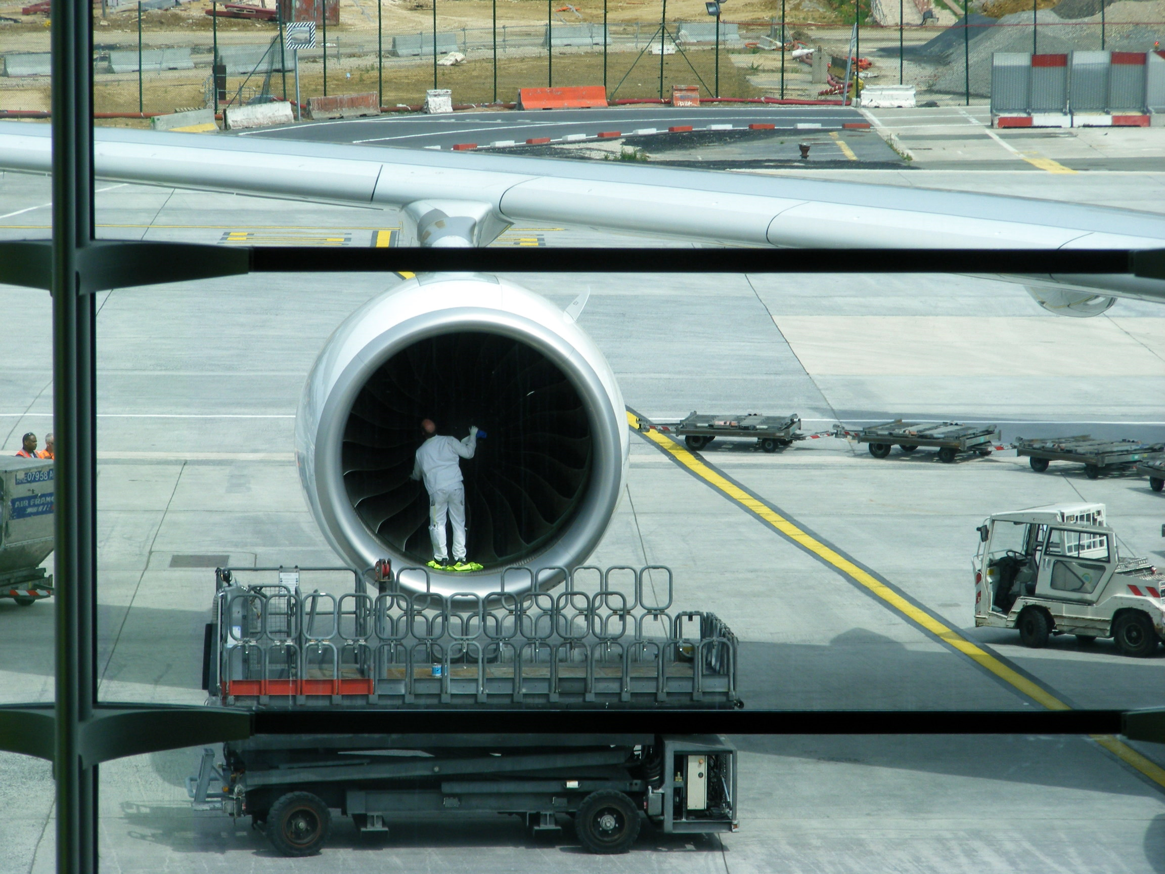 A perspective of Air France Airbus A380-861 F-HPJA at Charles de Gaulle Airport